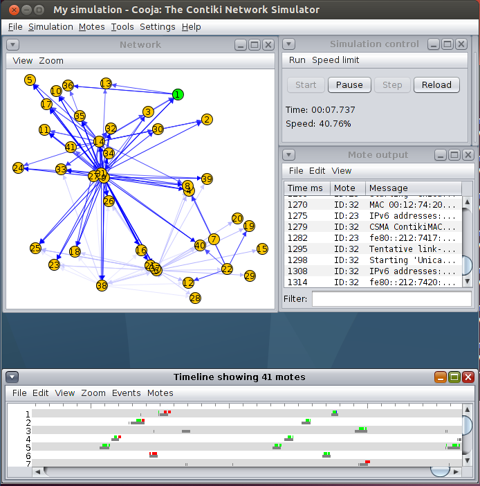 Screenshot of the open source Contiki operating system running an IPv6 routing protocol on 41 nodes in the Cooja Contiki network simulator.